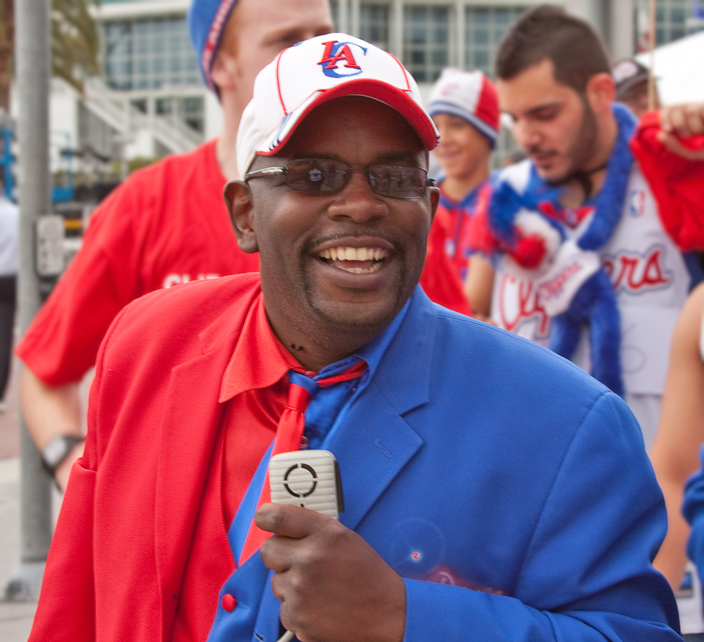 Darrell Bailey, also known as Clipper Darrell